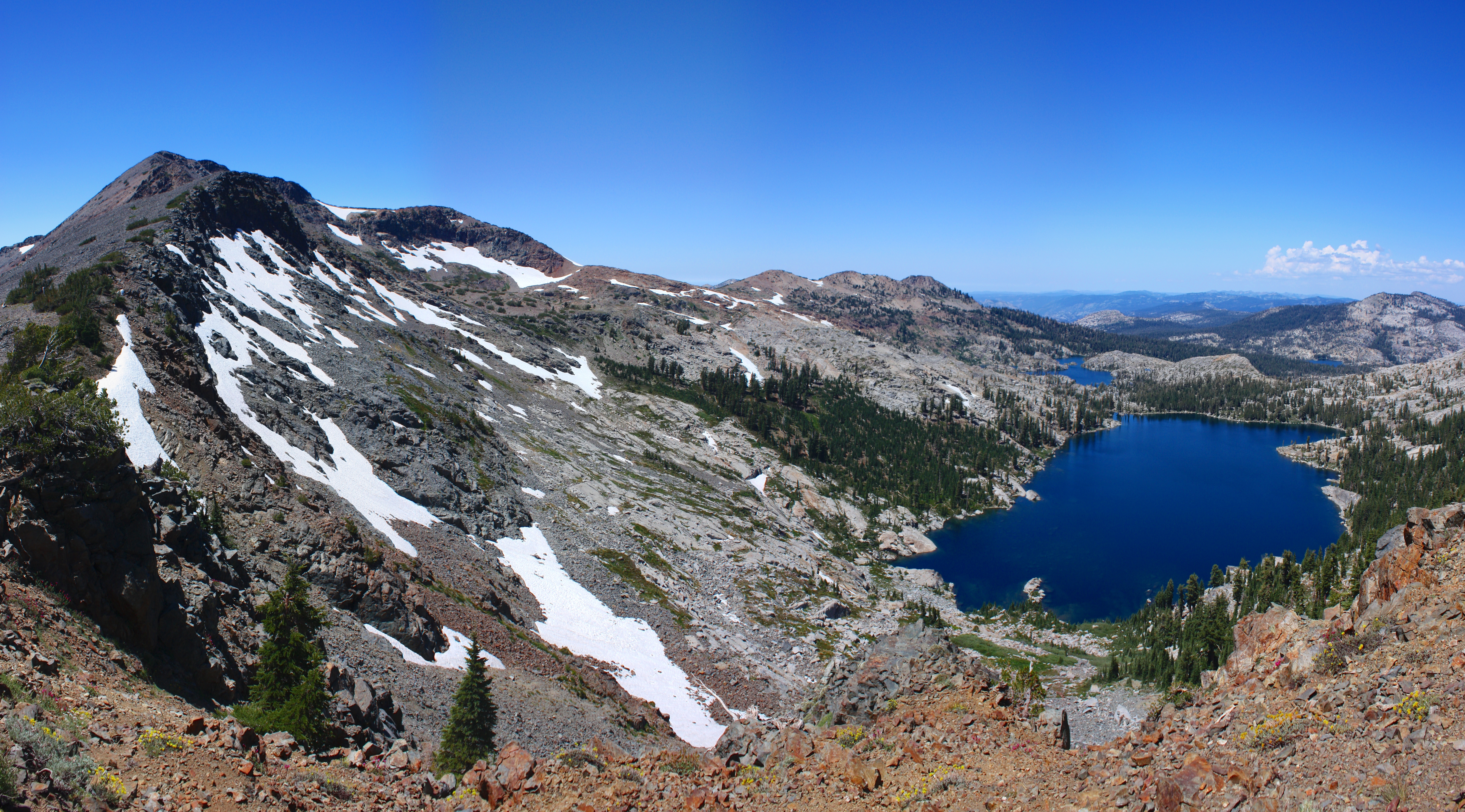 Desolation Wilderness Dick's Pass Pano 2